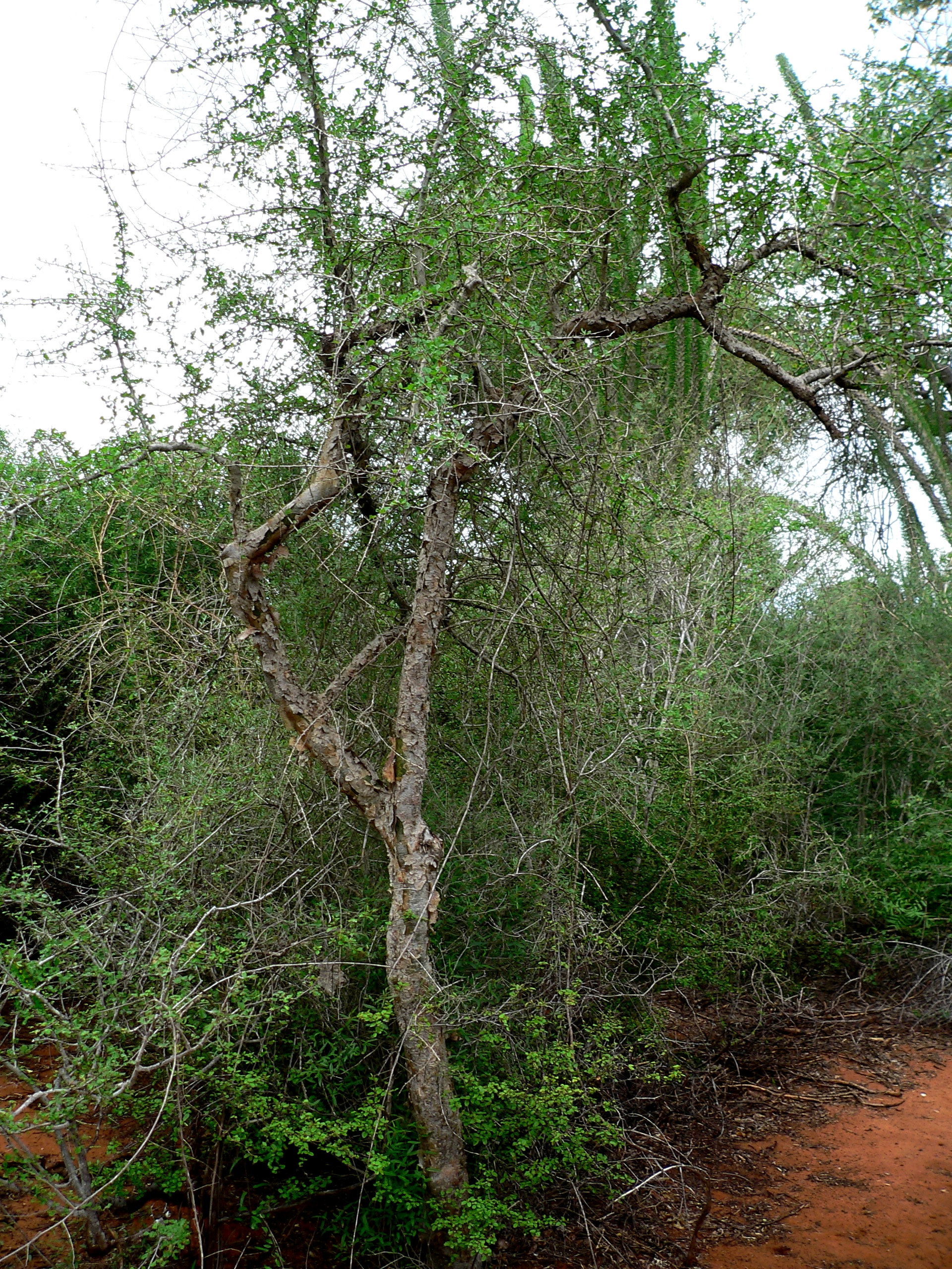 Commiphora simplicifolia (Burseraceae), spiny forest at Mangily, western Madagascar